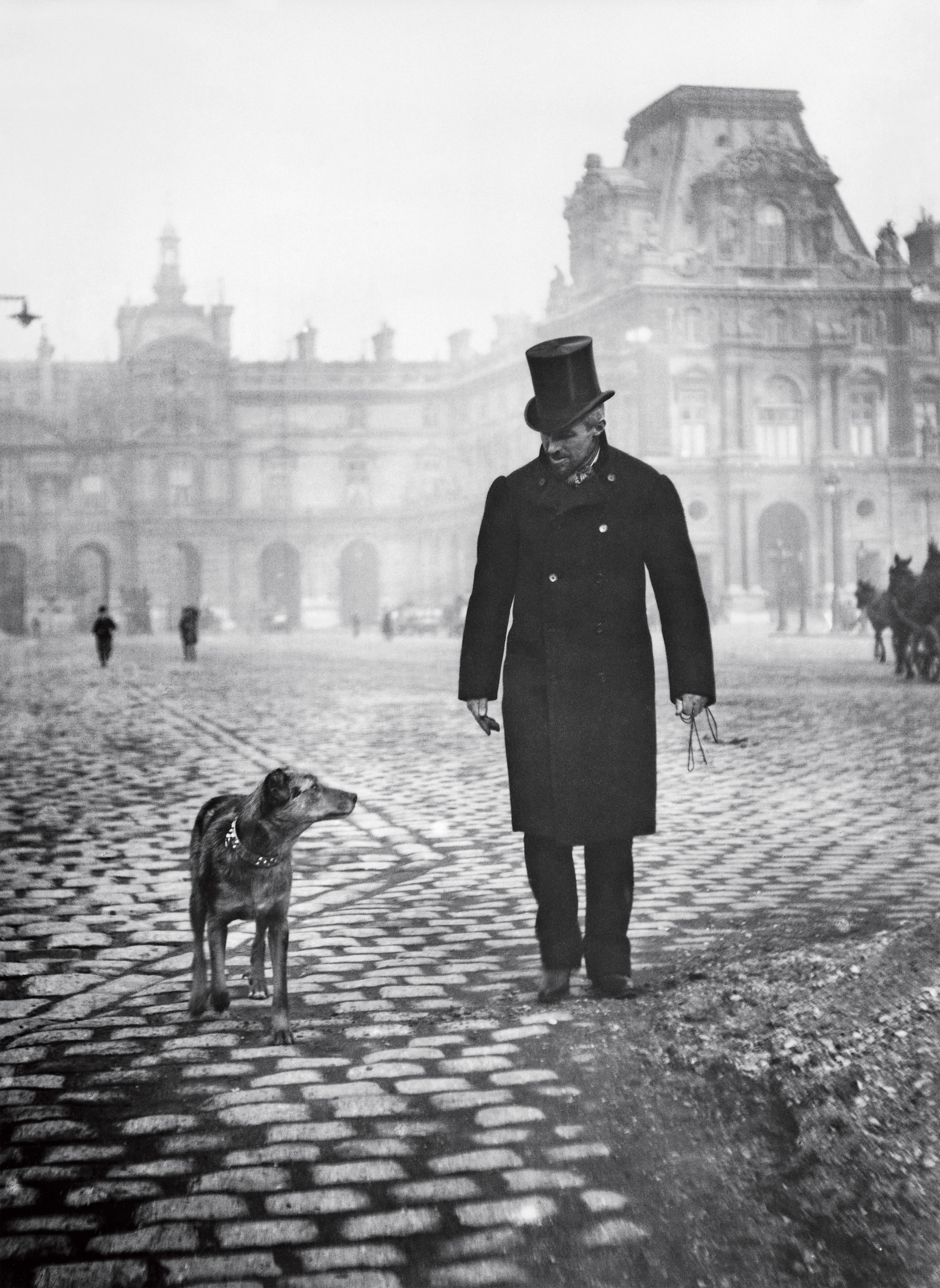 Gustave Caillebotte and Bergère on the Place du Carrousel, Paris. Photo taken around 1892 by Martial Caillebotte, brother of the painter Gustave Caillebotte.